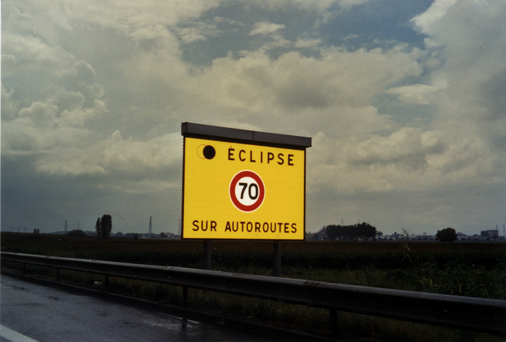 Road warning in France - Speed Limit 70 Km/h during eclipse period